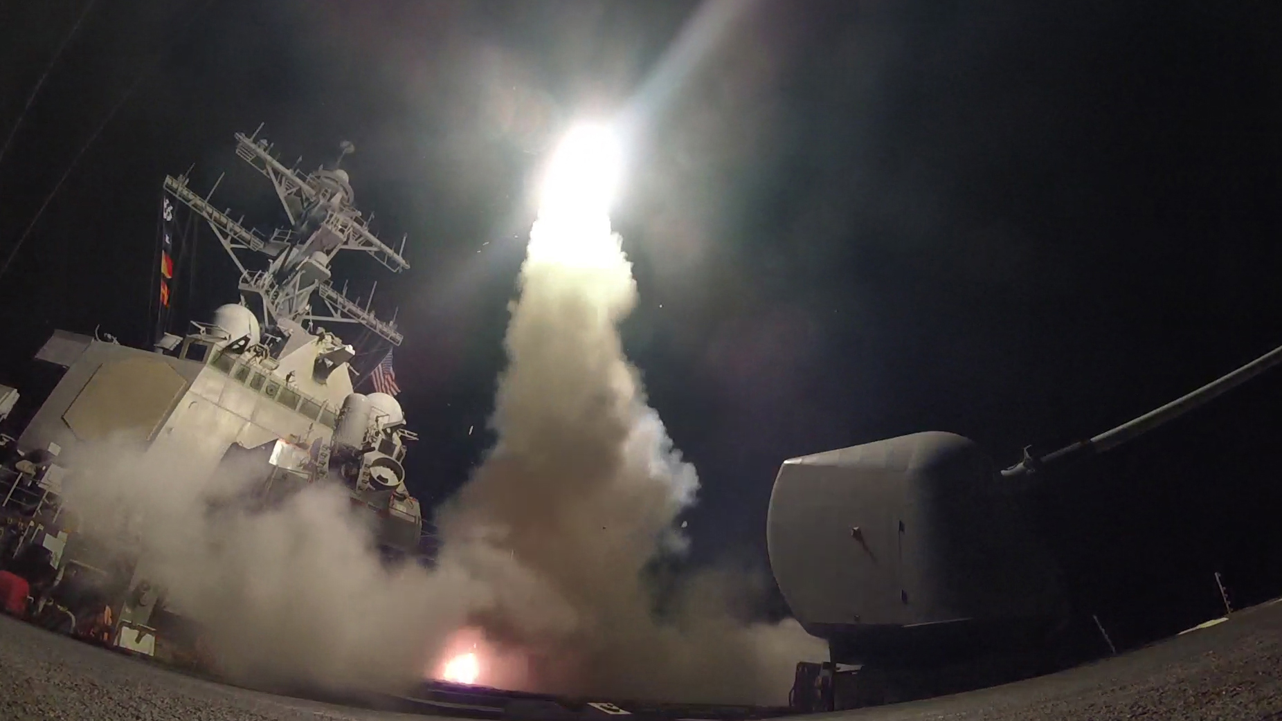 MEDITERRANEAN SEA (April 7, 2017) The guided-missile destroyer USS Porter (DDG 78) conducts strike operations while in the Mediterranean Sea, April 7, 2017. Porter, forward-deployed to Rota, Spain, is conducting naval operations in the U.S. 6th Fleet area of operations in support of U.S. national security interests in Europe. (U.S. Navy photo by Mass Communication Specialist 3rd Class Ford Williams/Released)170407-N-JI086-301 Join the conversation: navylive.dodlive.mil